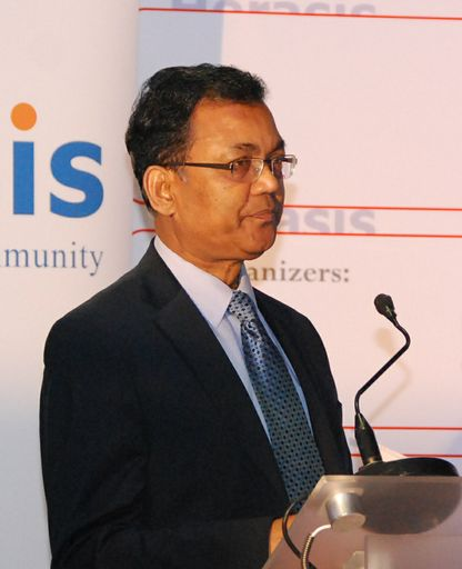 Paban Singh Ghatowar, Union Minister of Development of North Eastern Region, India, at the Horasis Global India Business Meeting, Belfast, 23-24 June